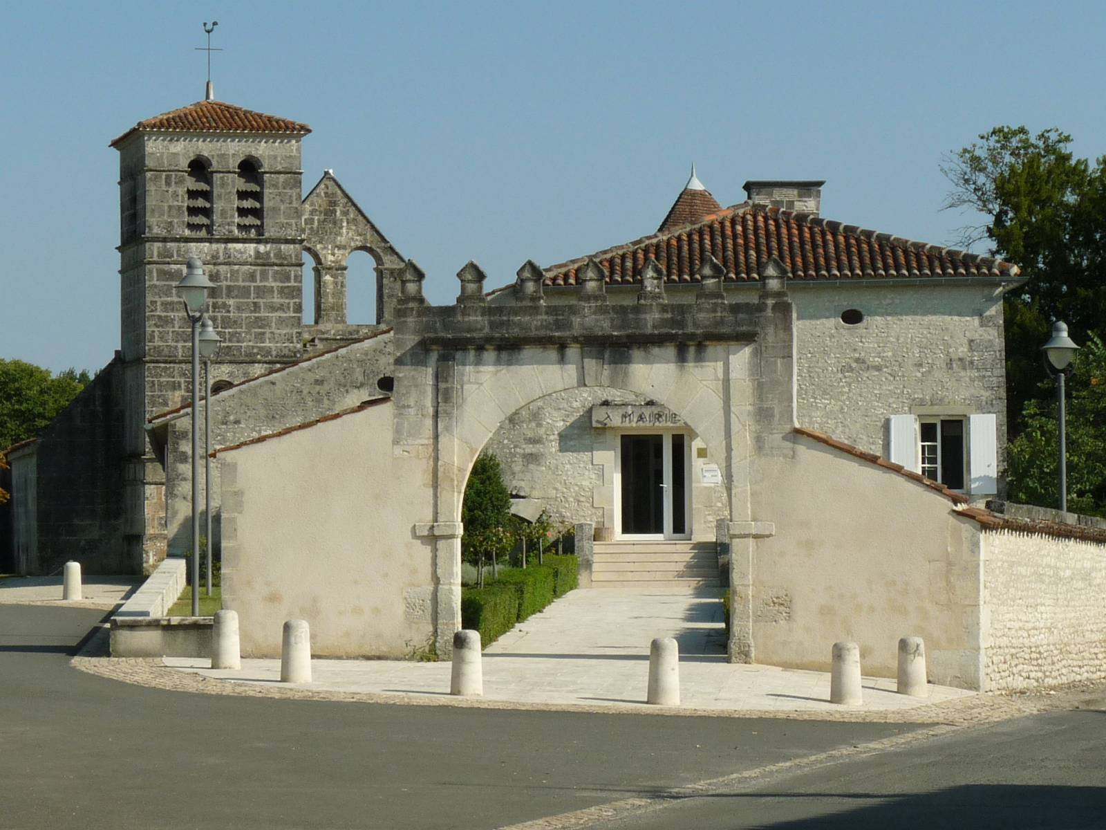 town hall and church of Ars, Charente, SW France